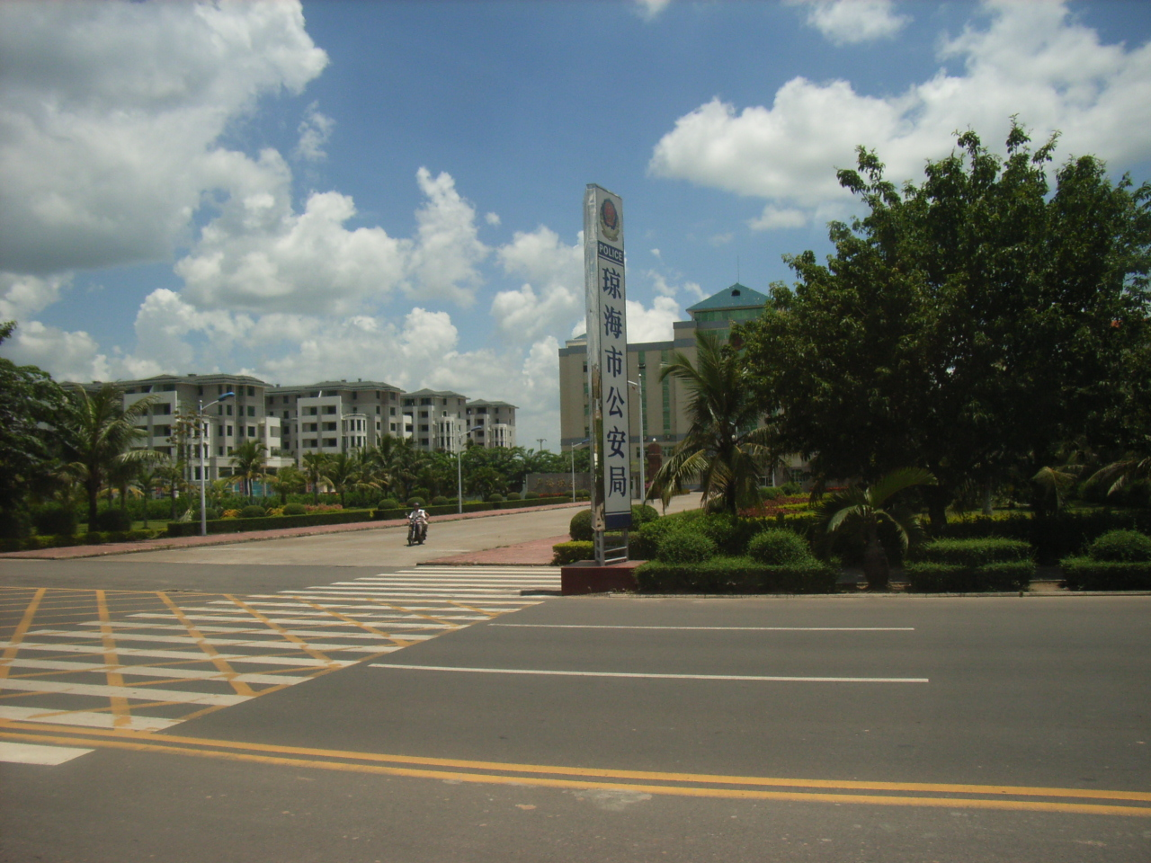 Boao Aquapolis, Qionghai County, Hainan Island, China User:HNPIX